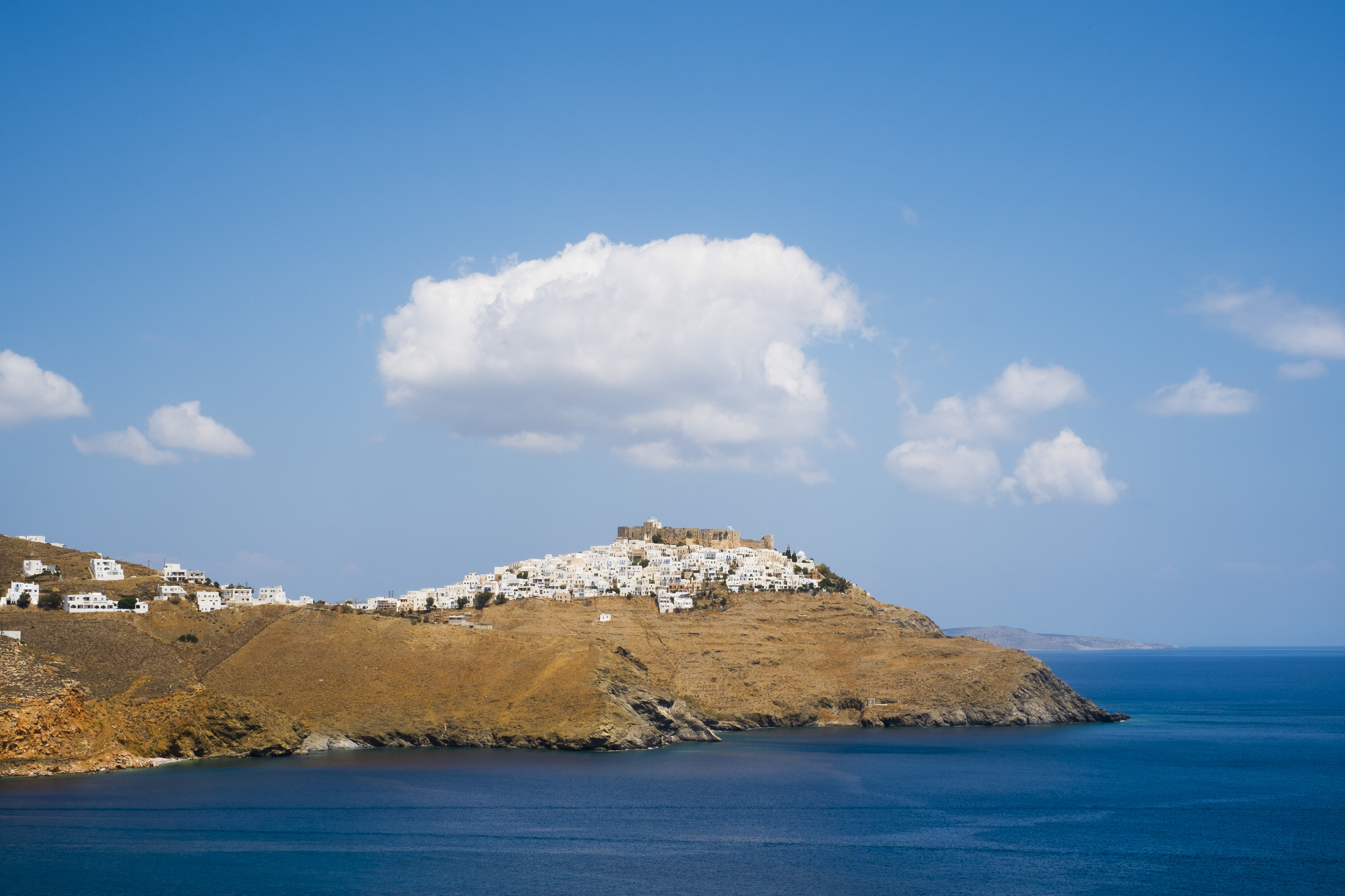 This is a photography of Natura 2000 protected area with ID GR4210009